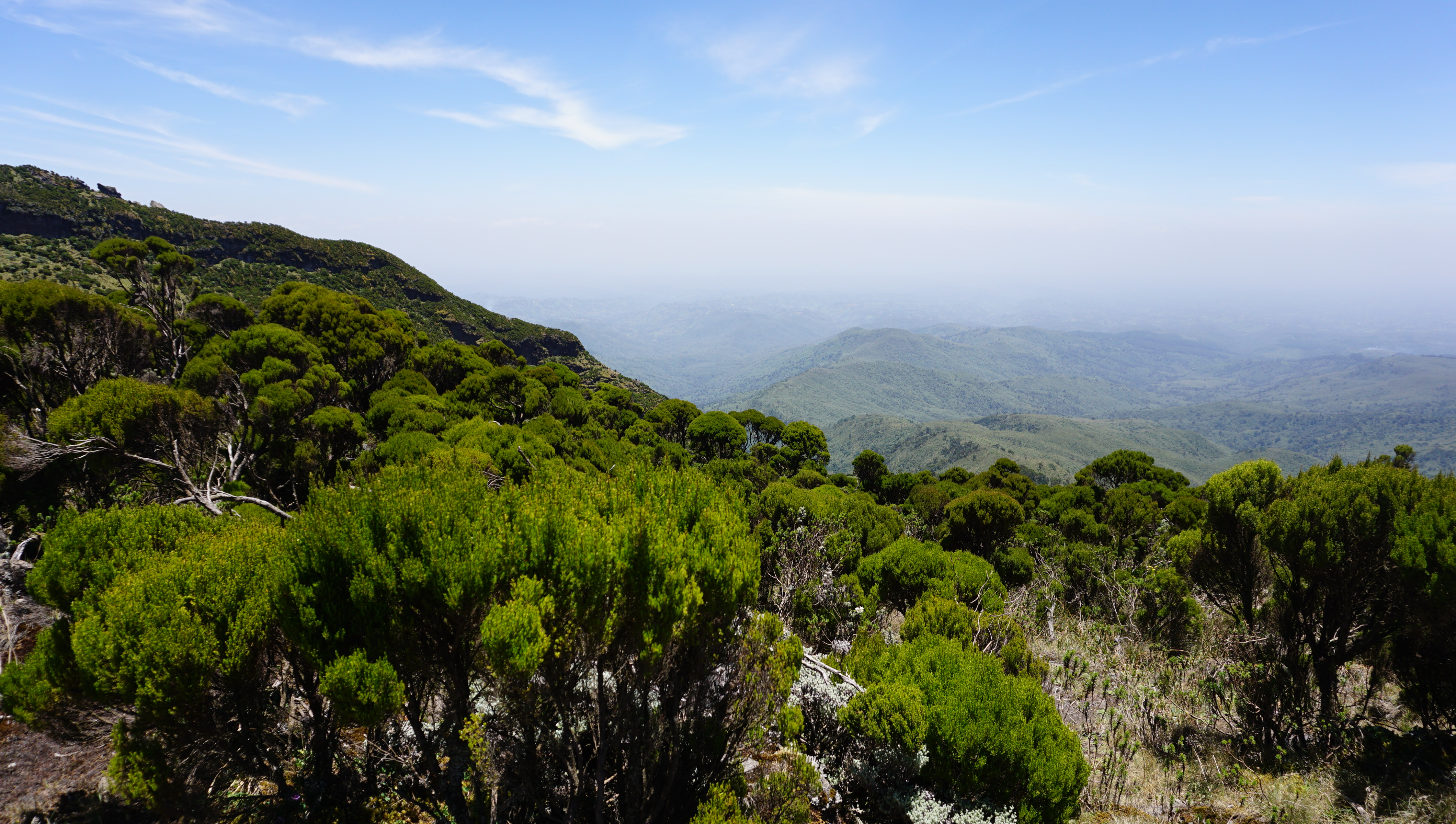 This is an image with the theme "Play" from: Kenya